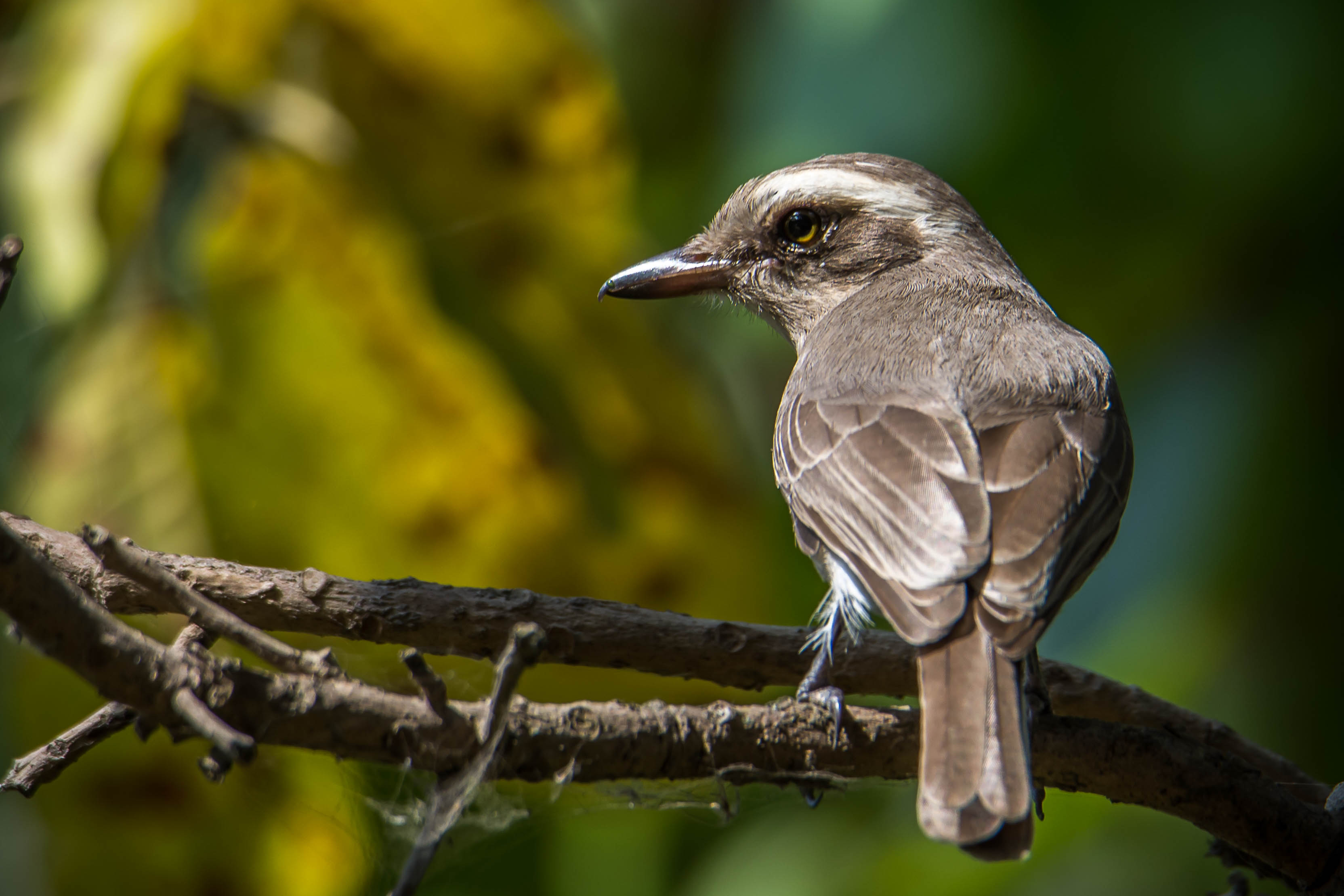 The common woodshrike (Tephrodornis pondicerianus), Nepal